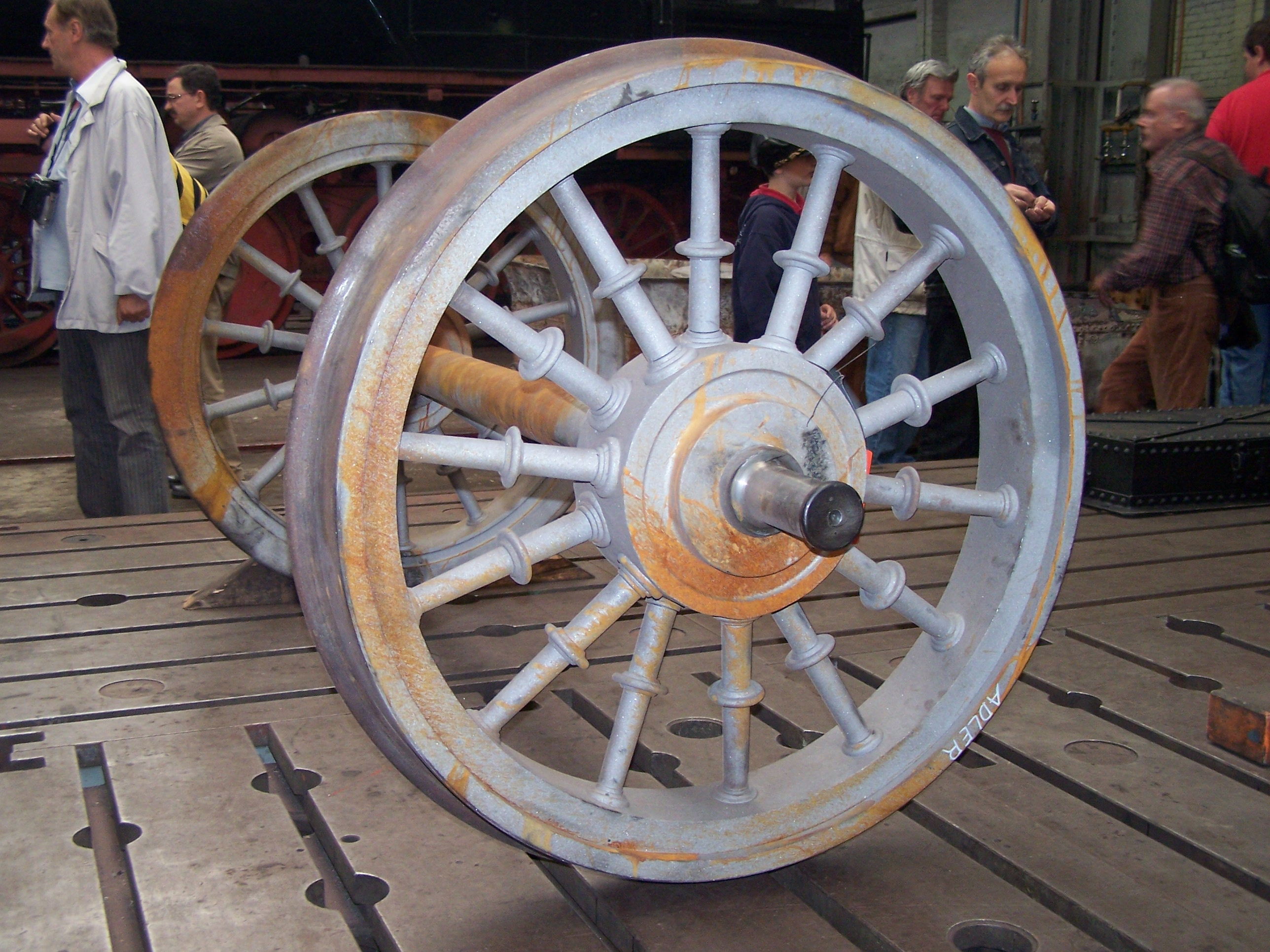 leading or trailing axle of the first steam locomotive in Germany Adler (reproduction of 1935) in the Dampflokwerk Meiningen, Germany at the Dampfloktage, September 2007